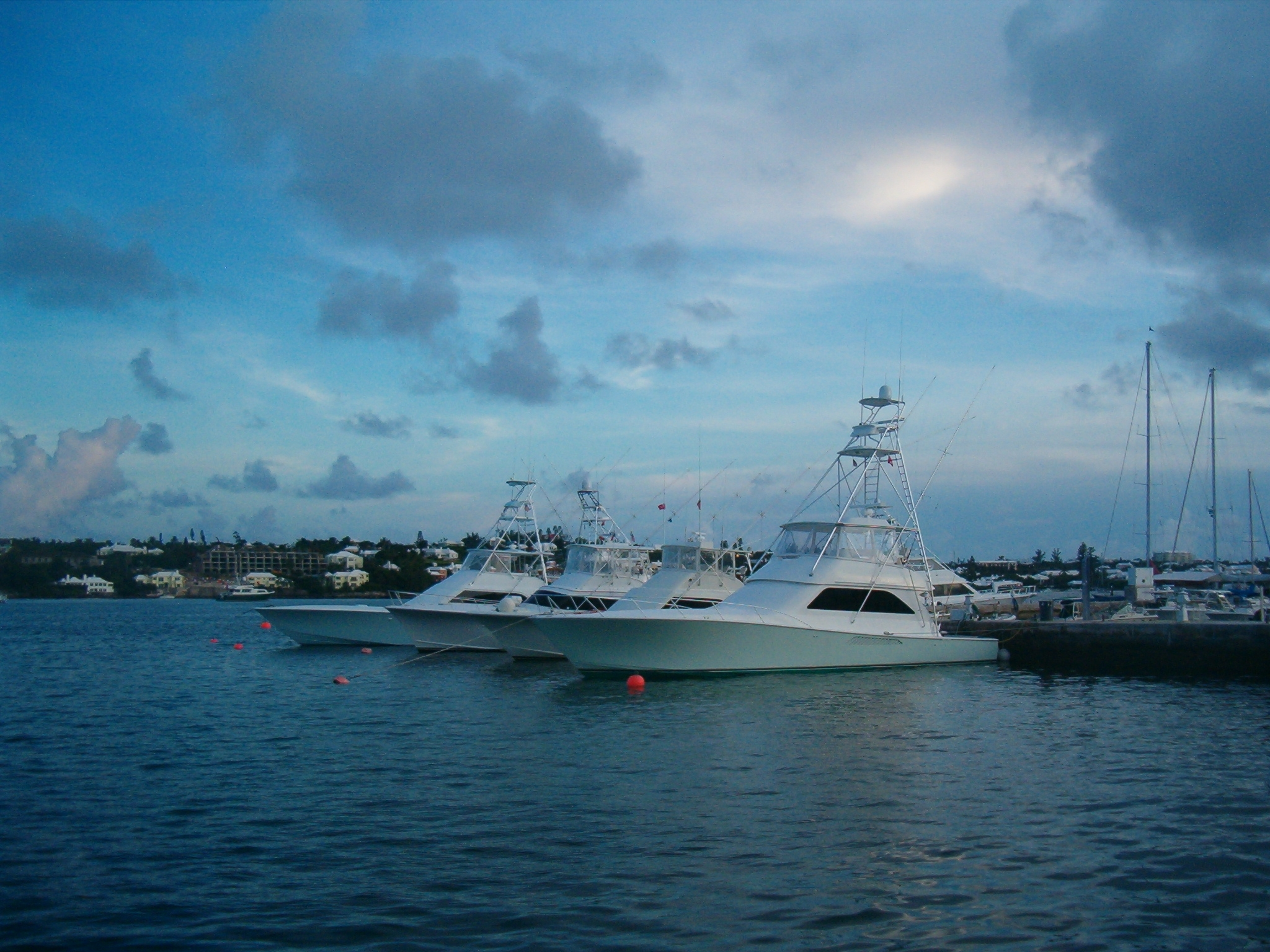 Sport fishering boats at the Royal Bermuda Yacht Club in 2006